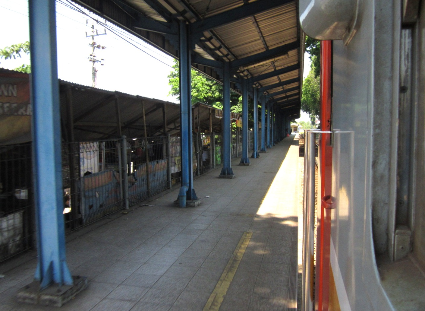 Banjarkemantren Train Halt..